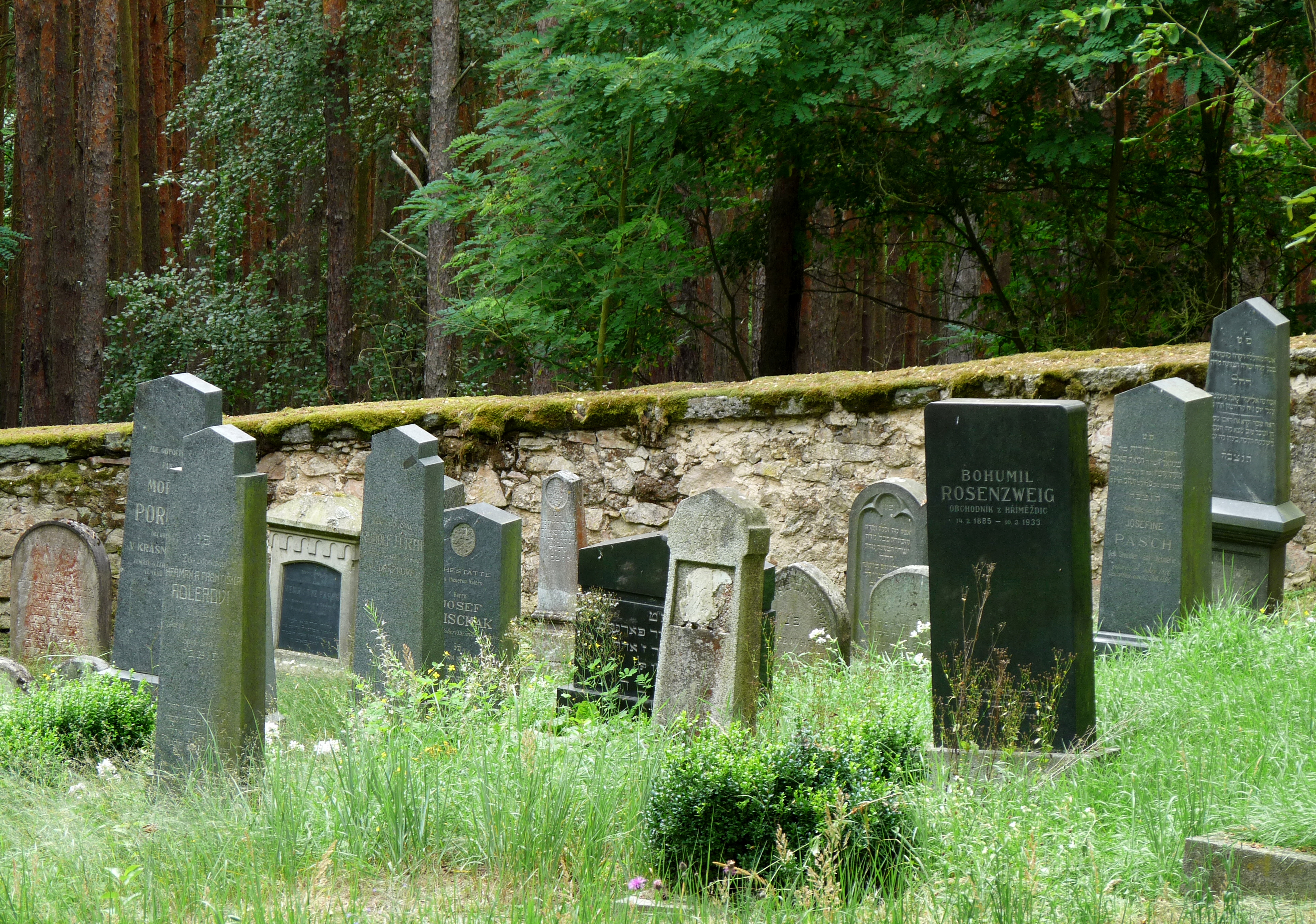 Tombstones at the Jewish cemetery in Drážkov, Příbram District, Central Bohemian Region, Czech Republic.